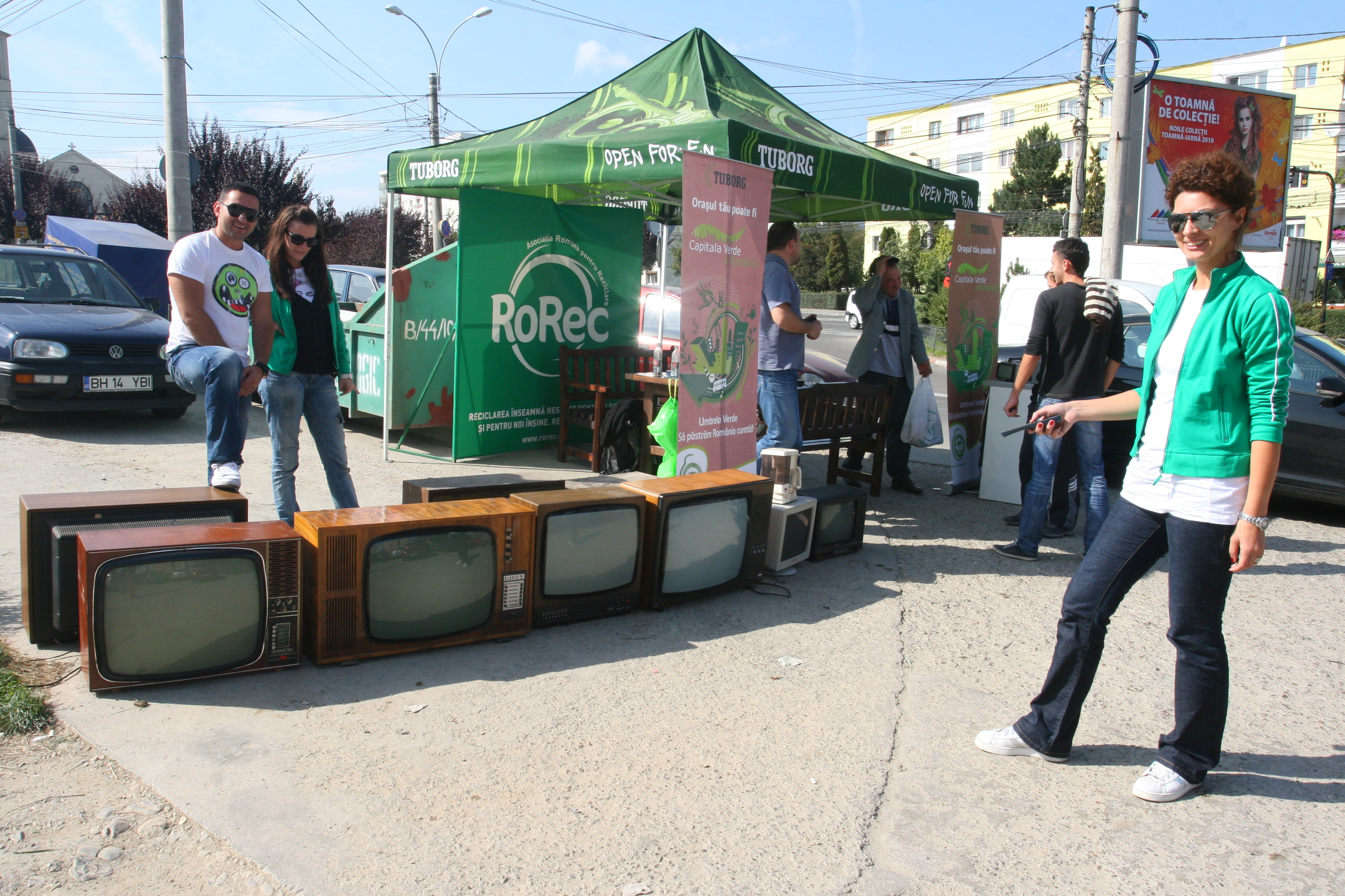 Recycling electrical and electronic waste in Cluj-Napoca, Romania.